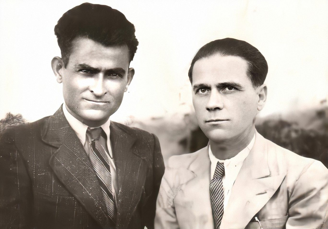 Lazo Trpovski and Andrey Chipov